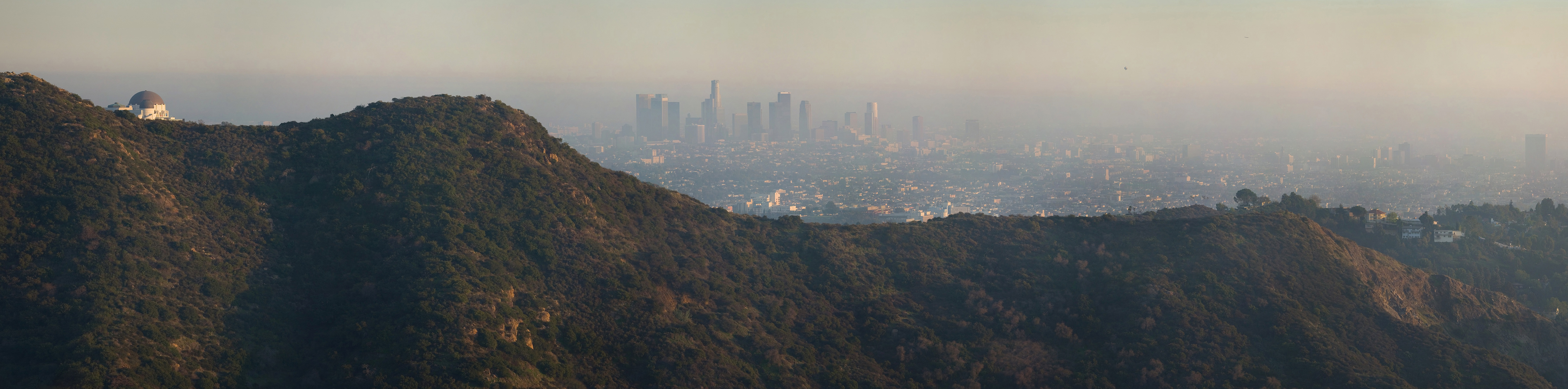 Griffith Observatory in Griffith Park is visible on the left, the Downtown Los Angeles area in the centre, and Hollywood on the right. Taken as a 20 segment 2x10 panorama with a Canon 5D and 70-200mm f/2.8L lens.